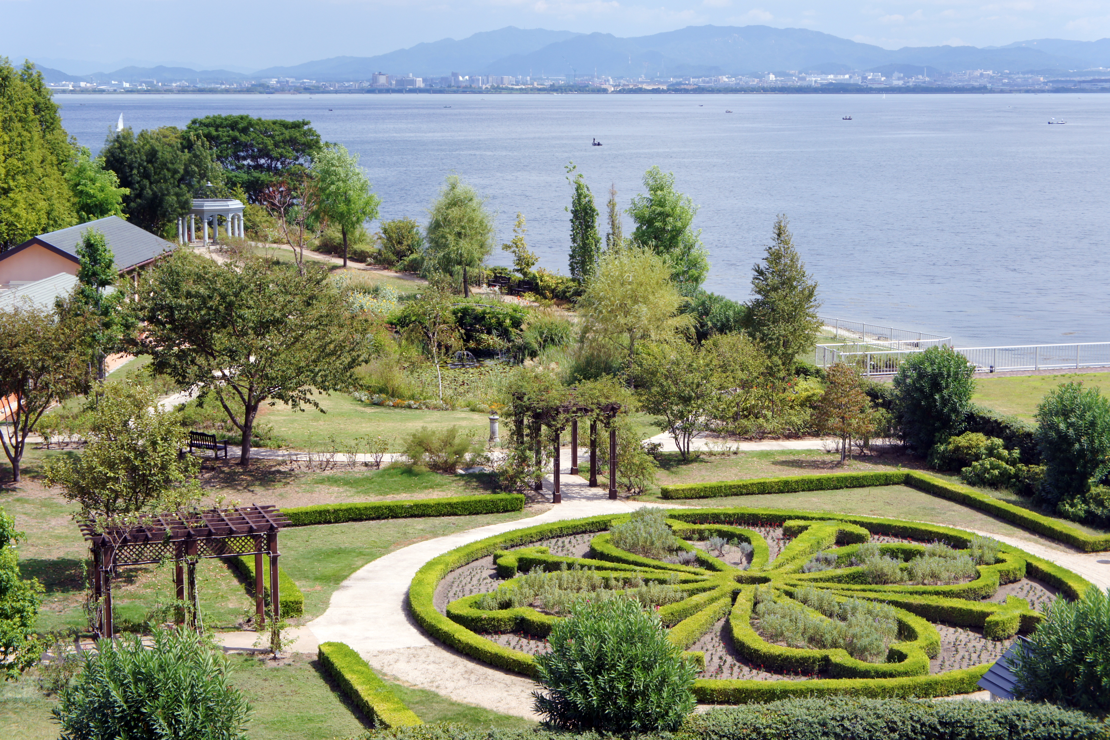 Biwako Otsukan English Garden of Yanagasaki Lakeside Park in Otsu, Shiga prefecture, Japan.